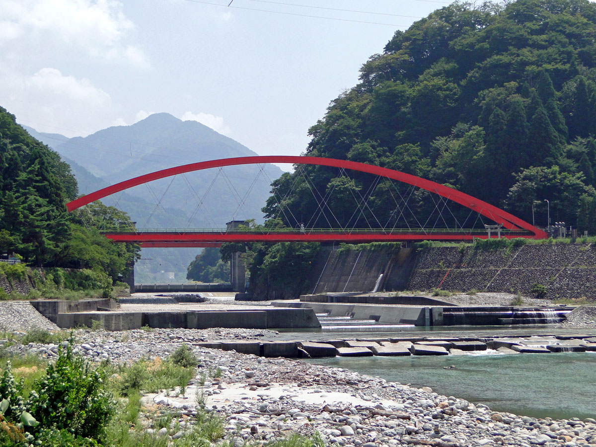 Aimoto bridge. latest.